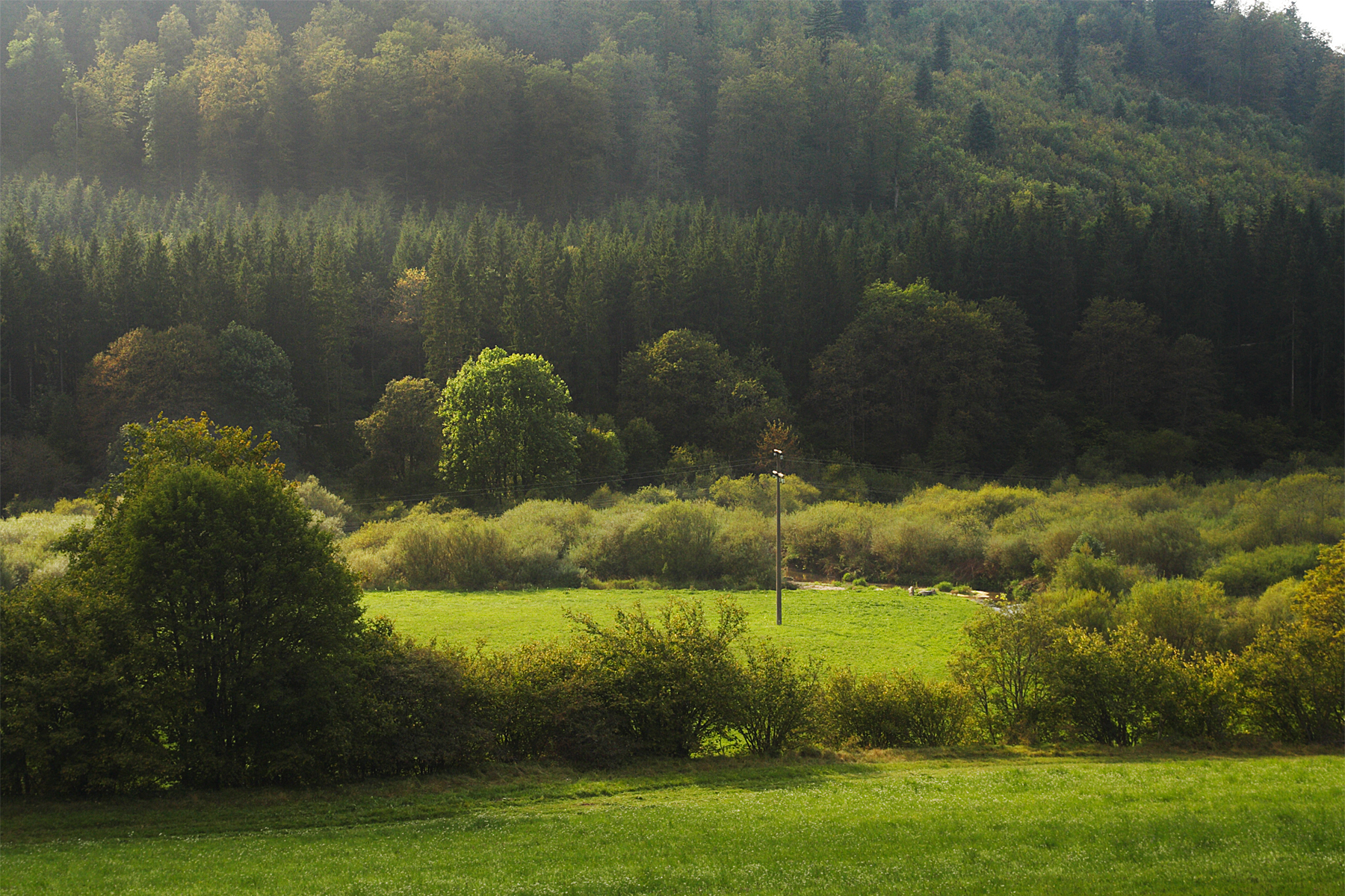 River Bära 692m, at the fork of Untere Bära and Obere Bära, western Swabian Alb. The fork and its wetland is the Naturschutzgebiet “Galgenwiesen”. In pleistocene the Bära, before and after the fork was a huge river. However, in Holocene it shrunk to a small river, almost a rivulet, as the terrain became more and more karstic. Geological research found traces of a very huge drainage system of Pliocene time, which drained even part of the Black Forest. This water system used both, the valleys of the Ur-Schlichem and the Ur-Bära. After the Alb plateau was tectonically lifted, ever since then, the Alb village Tieringen became the new highest location, where the rivers start: The Schlichem now starts its way towards the Neckar and the Bära towards the Danube.